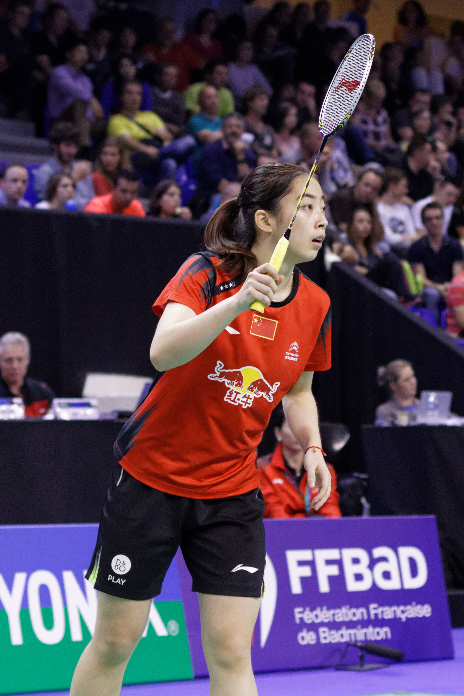 2013 French open. Women's singles quarterfinal. Wang Shixian vs Ratchanok Intanon.